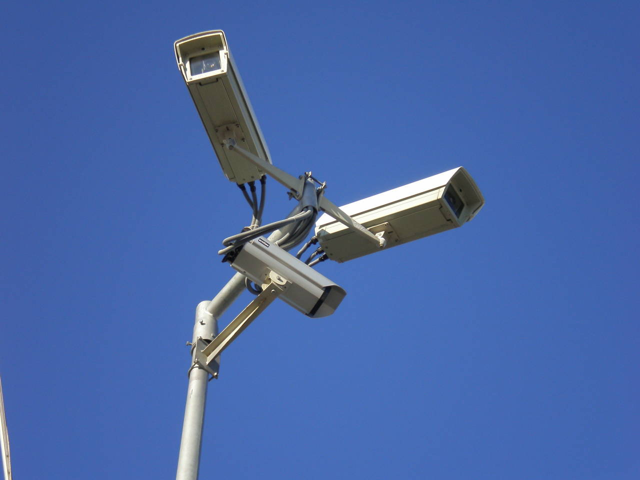 Surveillance video cameras above marina in Gdynia.